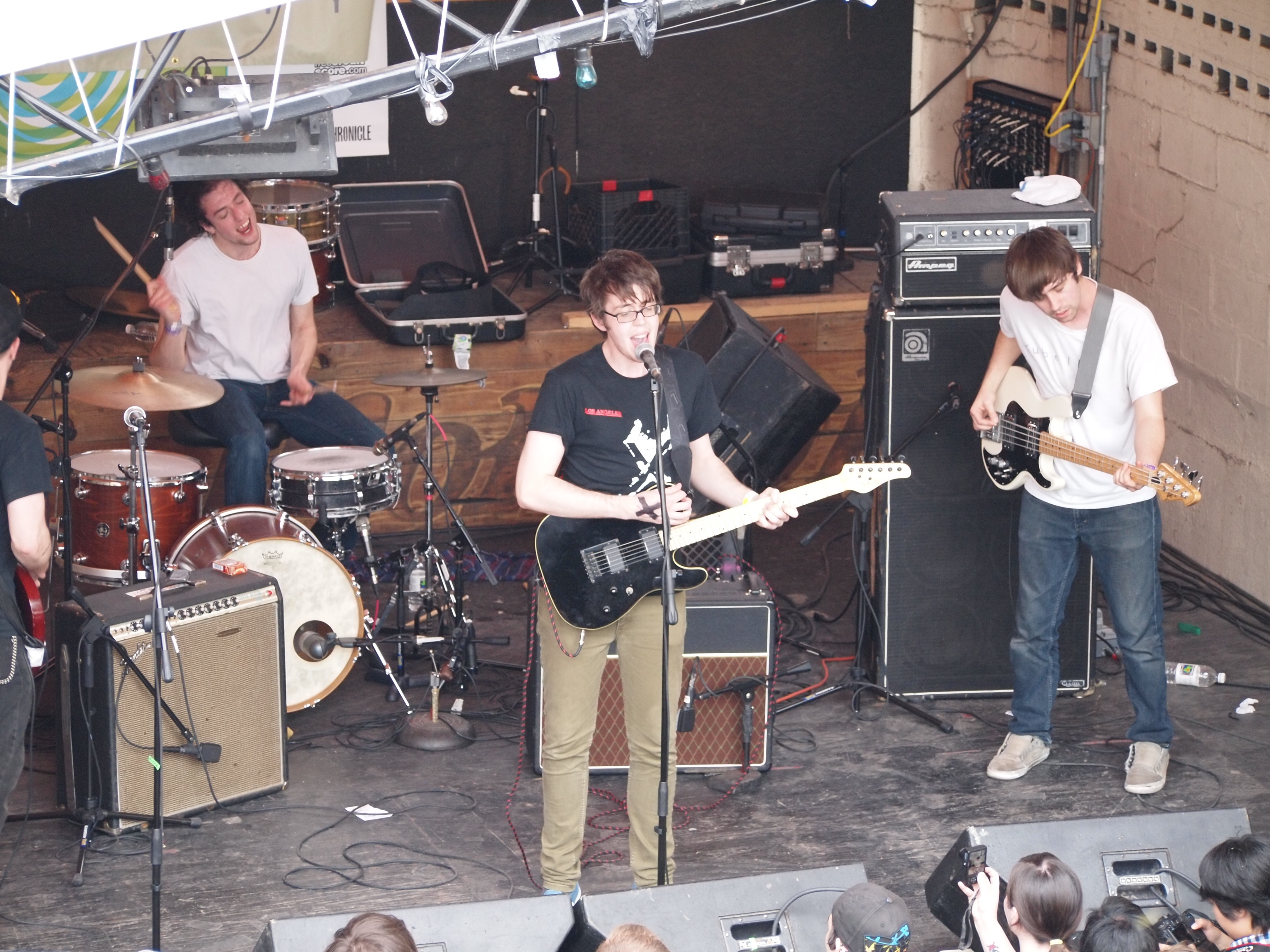 Cloud Nothings